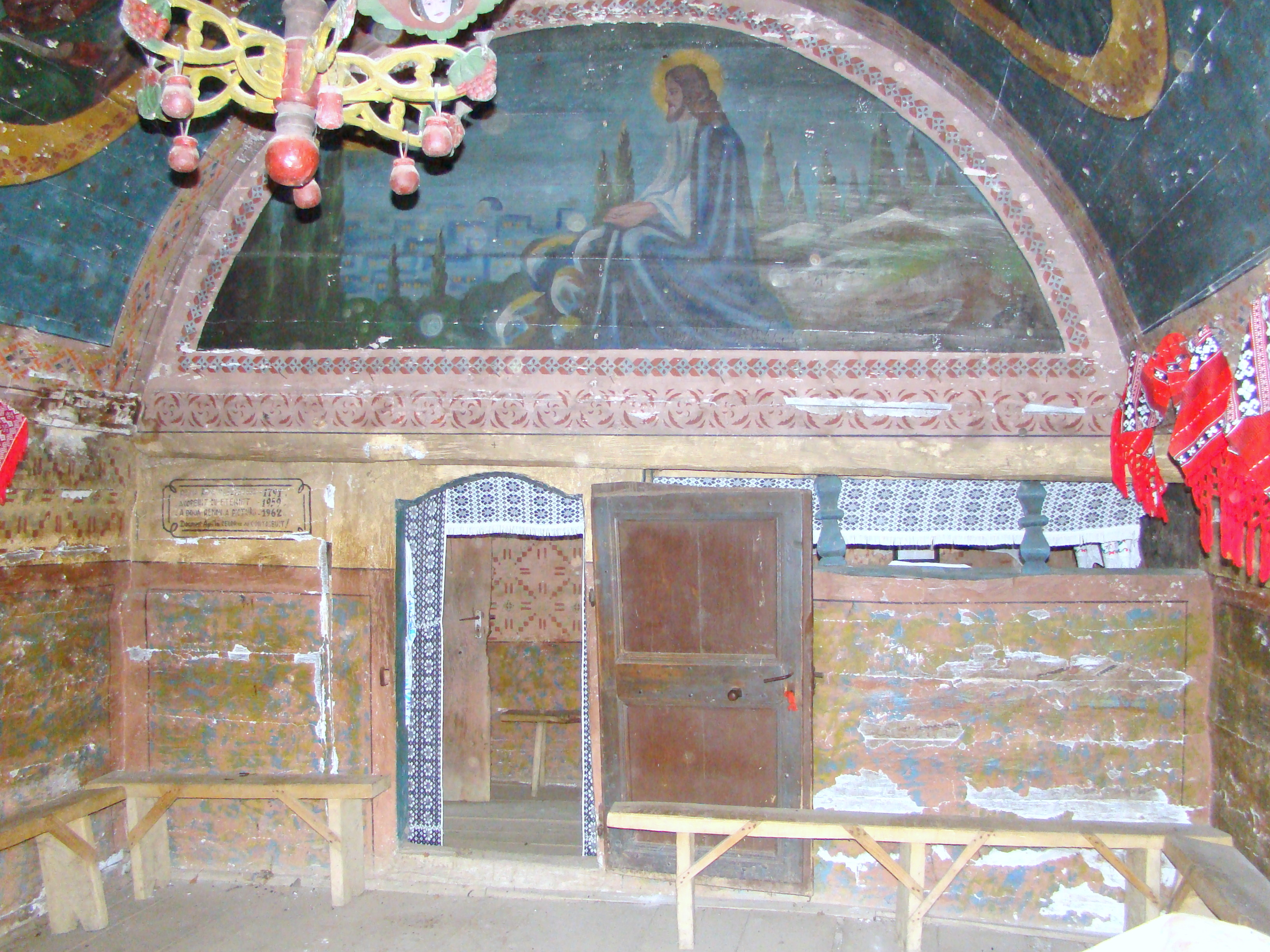 Wooden church in Apatiu, Bistrița-Năsăud county